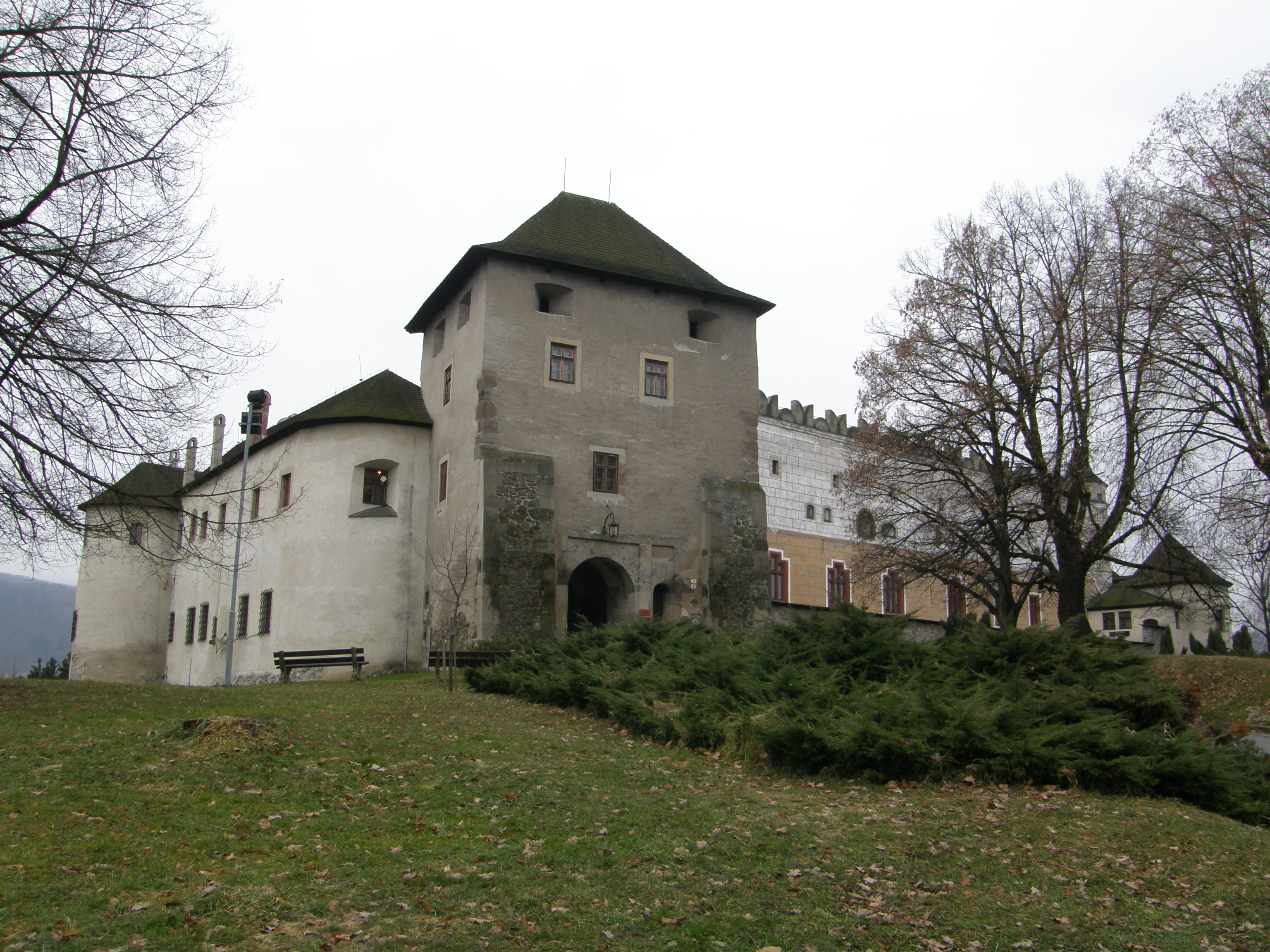 Zvolen Castle, general view of the entrance part.